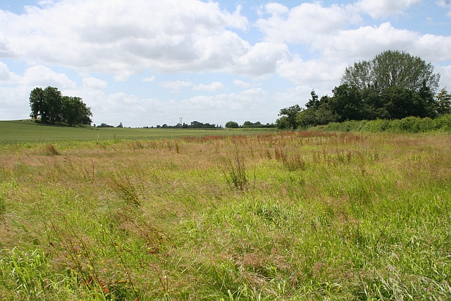 Marginal land Close to the a4104 road. No crops planted in this area. The rest of the land is under wheat.